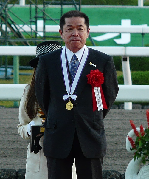 Masahiro-Matsunaga20111120